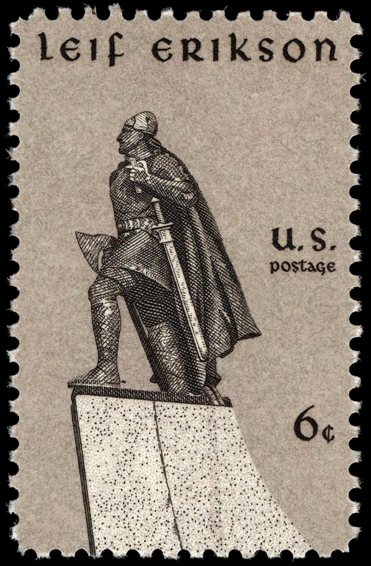 Image of US commemorative stamp depicting Leif Erikson